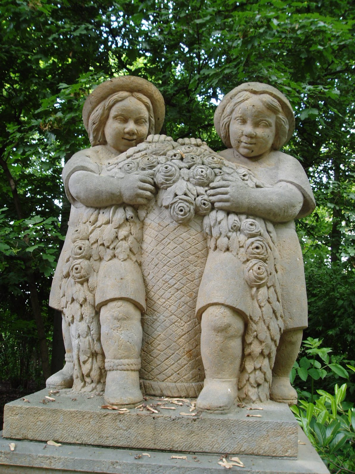 Snow-White and Rose-Red, at Märchenbrunnen im Volkspark Friedrichshain, Berlin